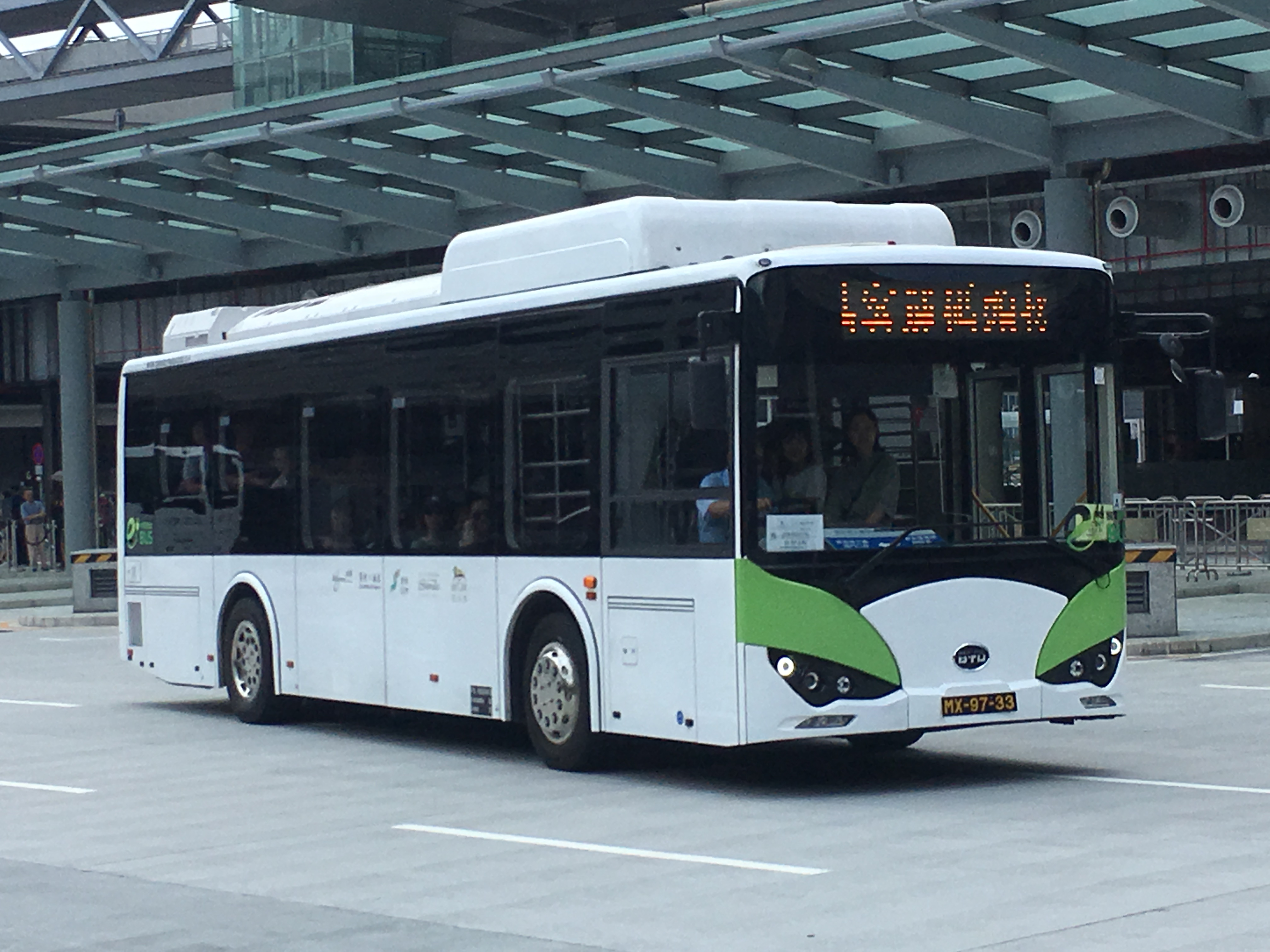 中文（香港）: This photo is taken in HZMB Macau Port.